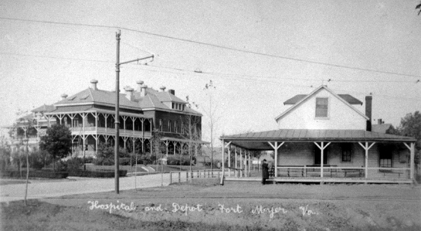 Railroad station with hospital in background c. 1896-1910 (Library of Congress, Prints and Photographs Division, Daniel French Collection, Lot 12359-1, LC USZ62-48670).